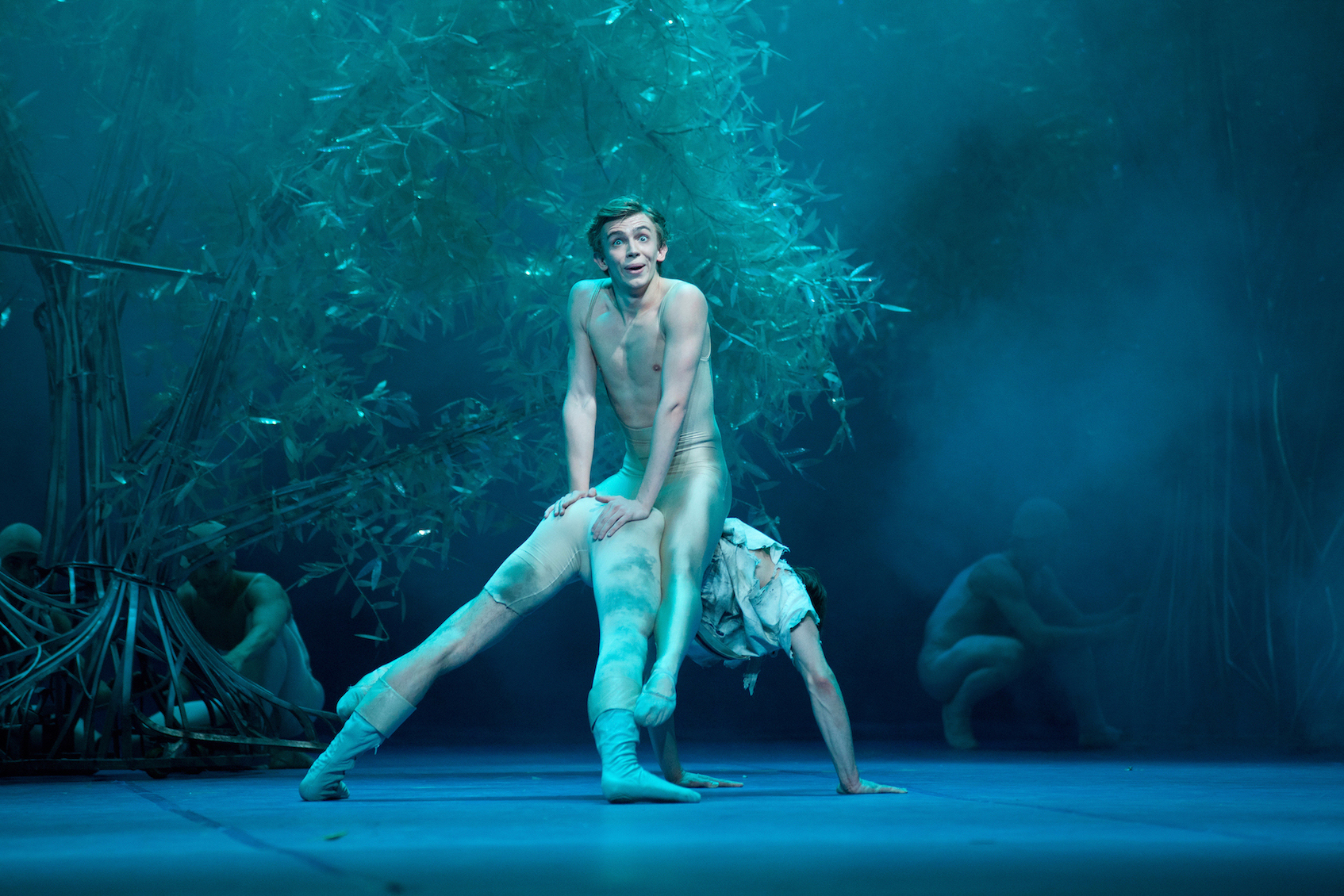 "A Midsummer Night's Dream" by John Neumeier, Polish National Ballet, dancers: Patryk Walczak (Puck) & Jarosław Zaniewicz (Lysander)